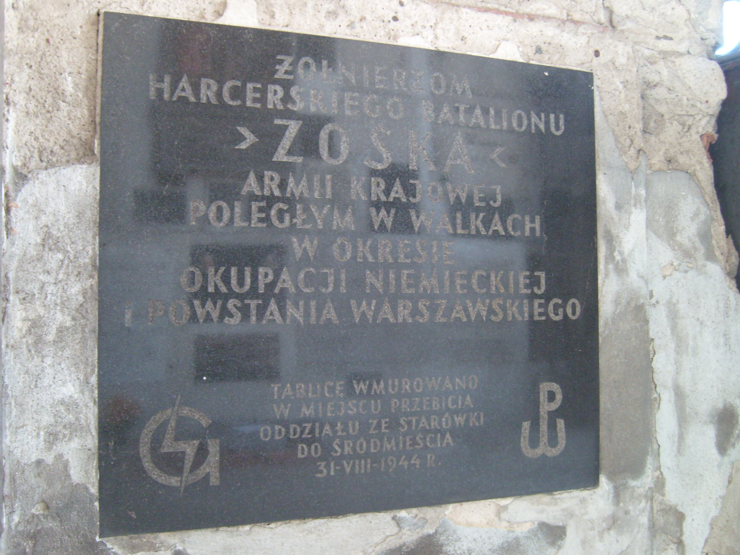 Saint Anthony of Padua church in Warsaw, Senatorska Street: memorial plaque in tribute to the fallen soldiers of Home Army during the Warsaw Uprising